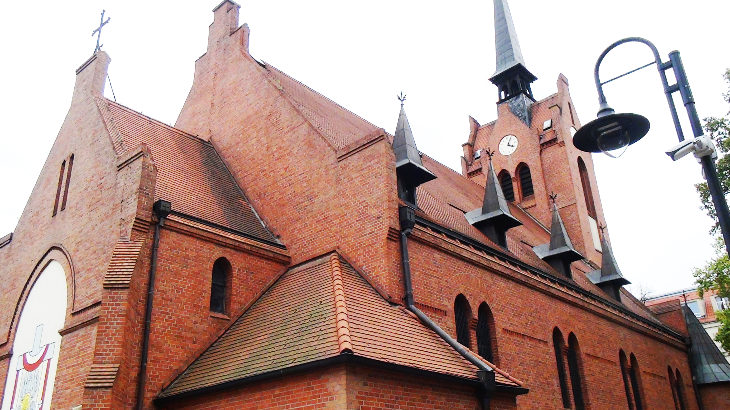 Garrison church of the Exaltation of the Holy Cross in Poznań, Poland, view from the north-west 1